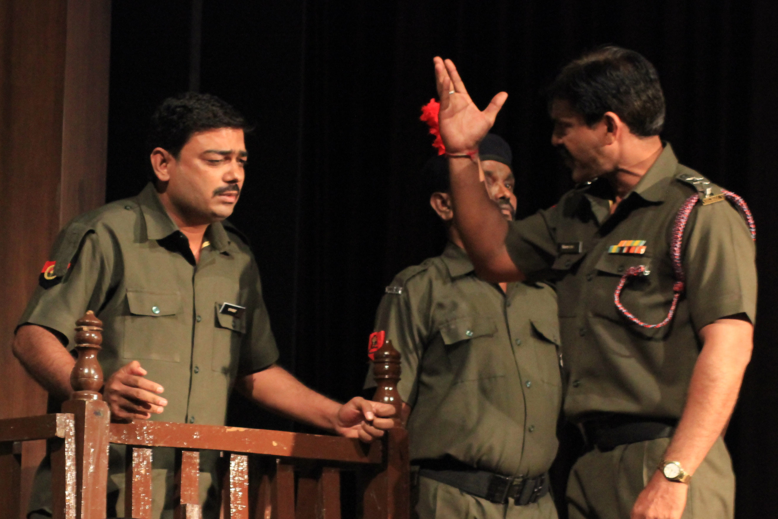 Court Martial Play at Ravindra Bhavan Bhopal ,written by Swadesh Deepak